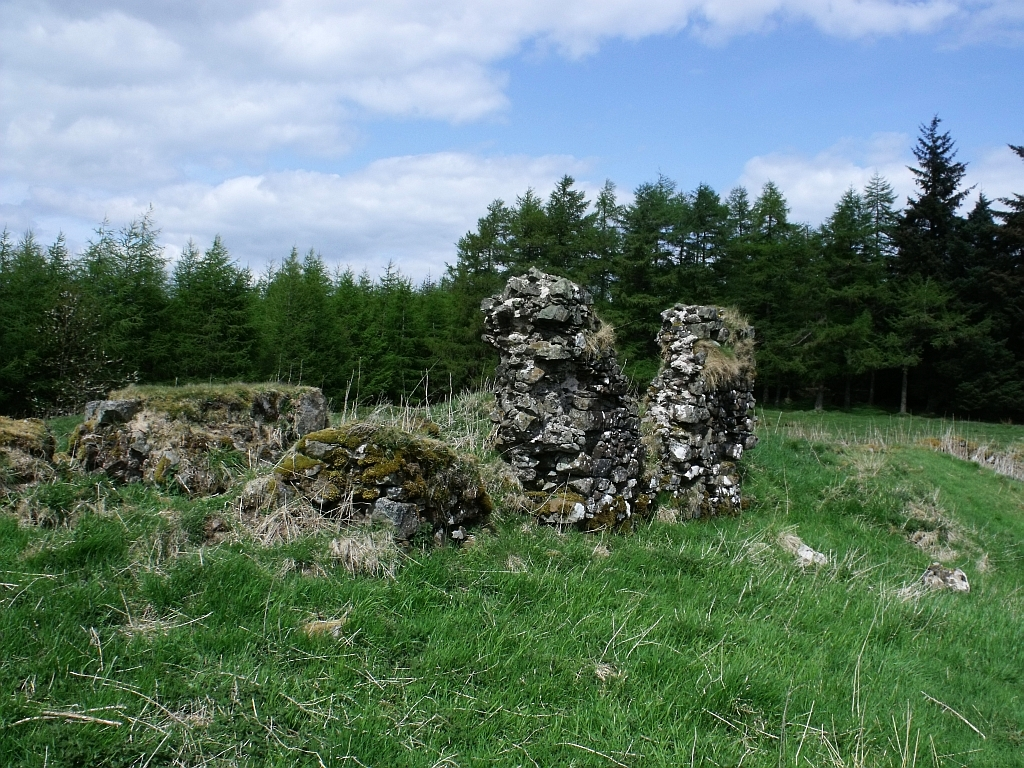 Sir John de Graham's Castle remains